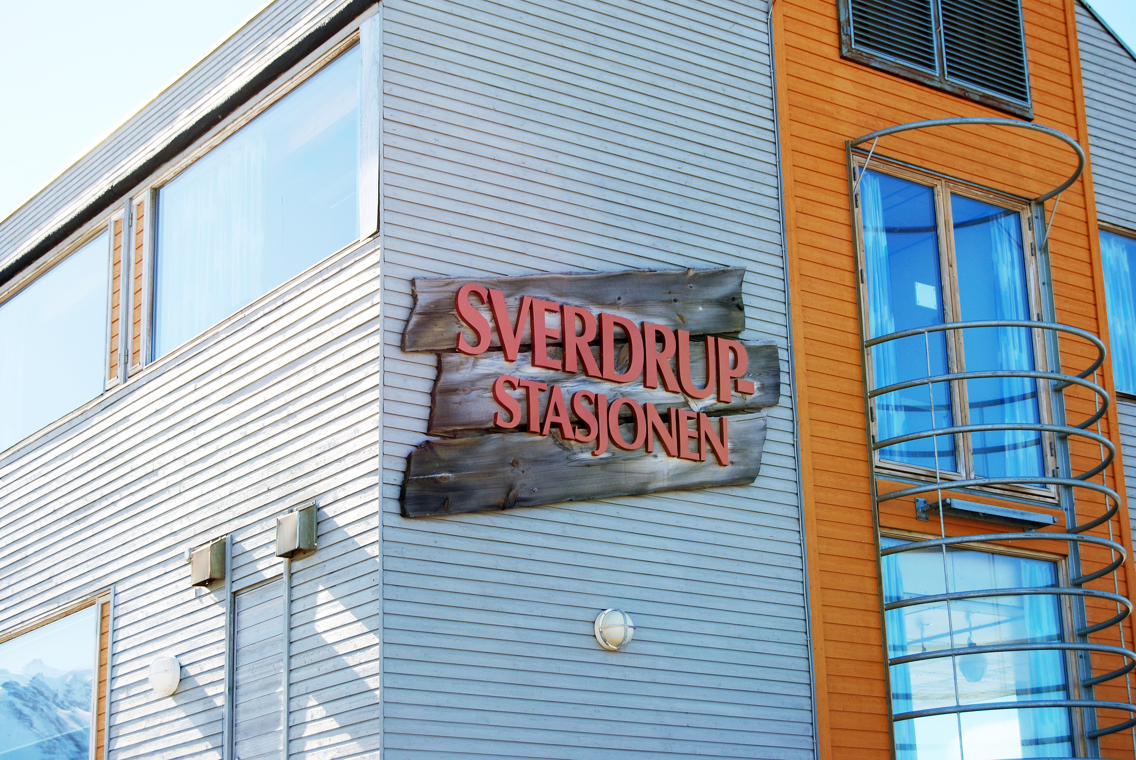 Ny-Ålesund Sverdrupstasjonen - Norwegian Polar Institute Sverdrup Research Stationa serves as a research and monitoring facility for research teams working in the pristine Kongsfjorden environment.